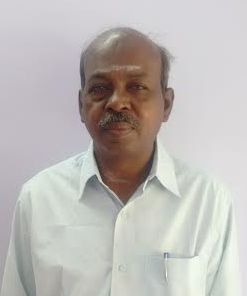 P Perumal, Thanjavur, Tamil Nadu ப.பெருமாள், தஞ்சாவூர், தமிழ்நாடு